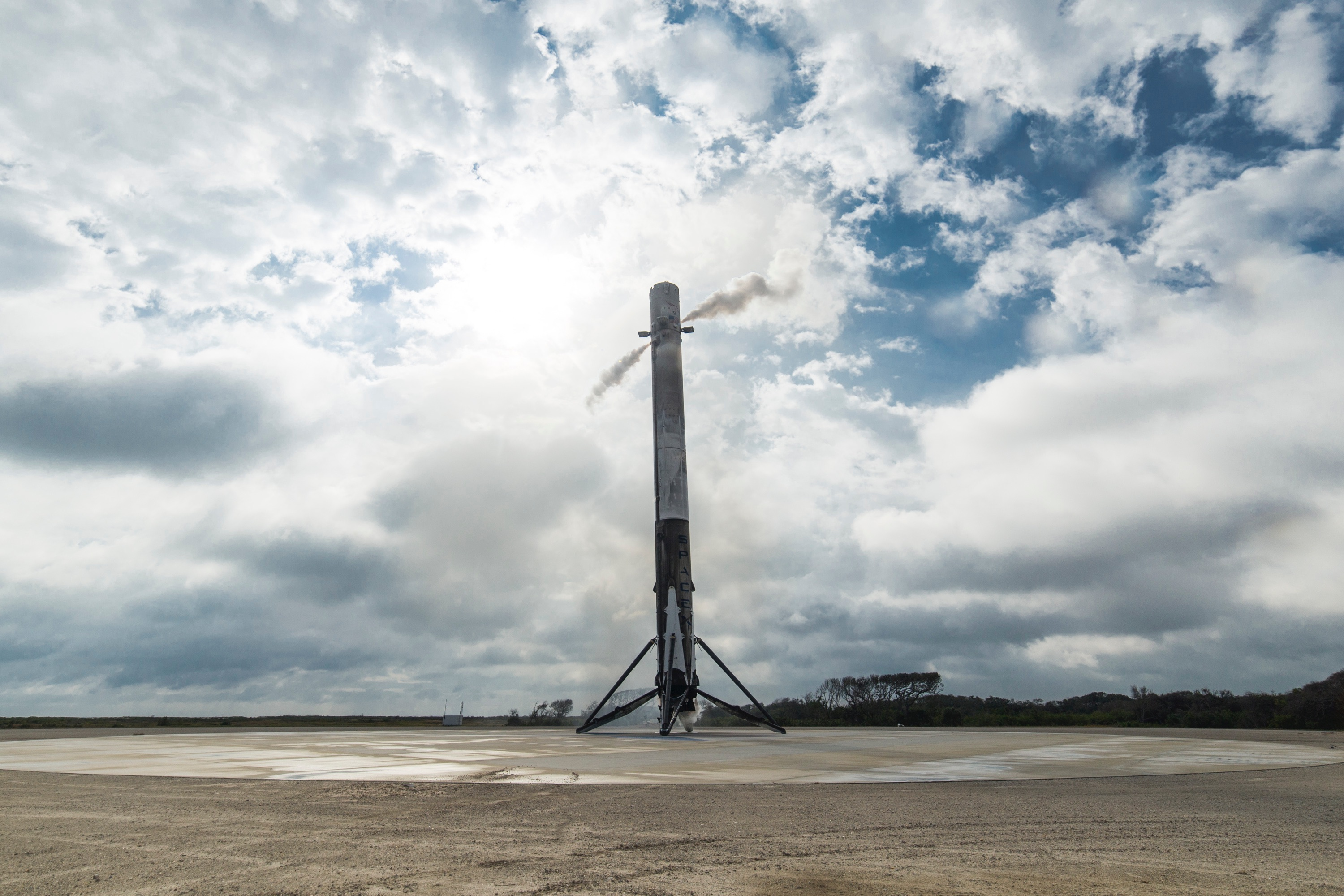 Falcon 9 first stage lands on LZ-1